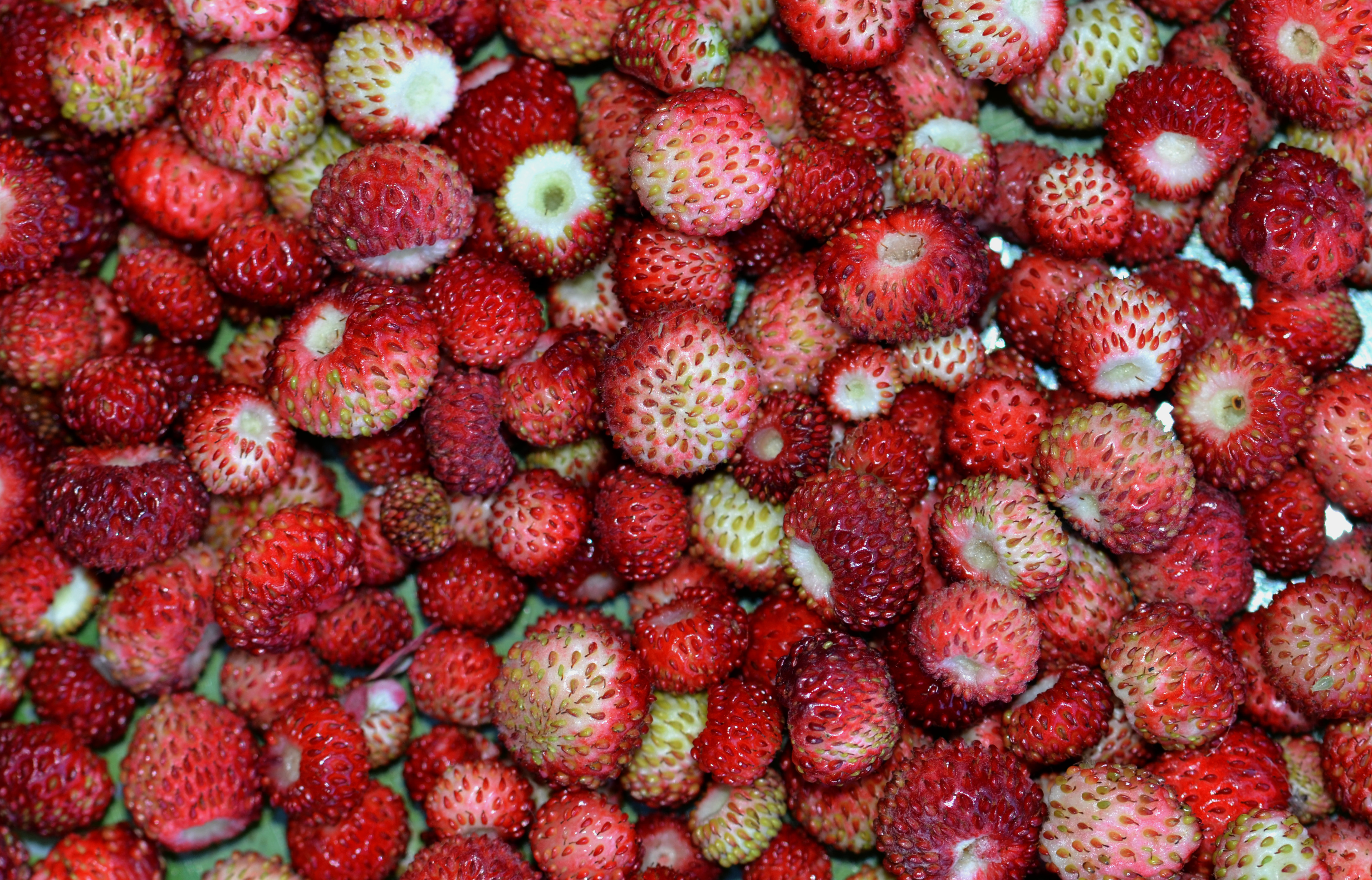 Strawberries, fruits of "Fragaria vesca" ; wild strawberry, of the family Rosaceae (Northern France). 2011-05-29